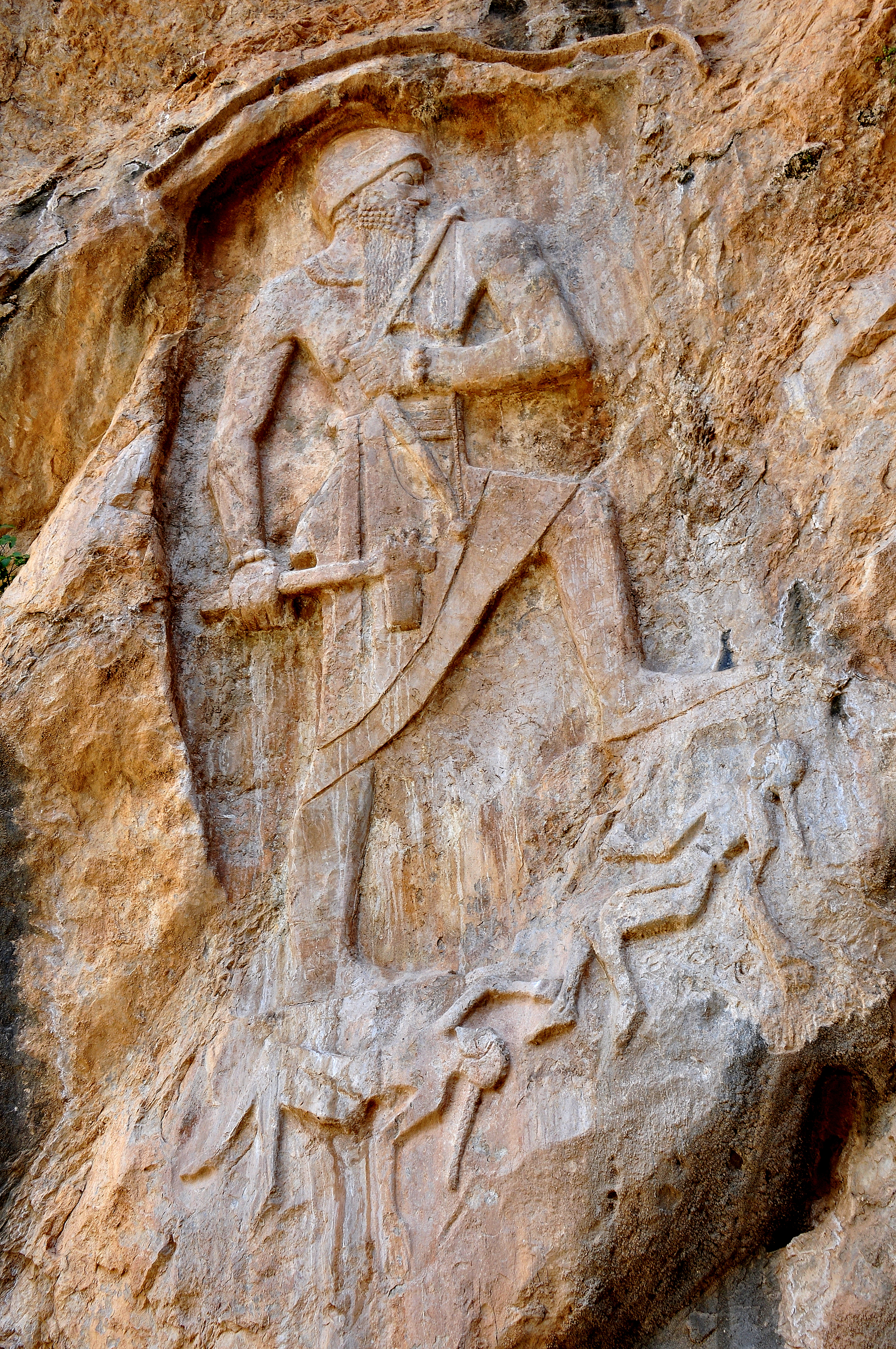 Rock relief of Naram-Sin. The rock relief lies on the cliff side of Darband-i-Gawr (which means the pass of the pagan). This pass is part of the south-eastern side of the Qara Dagh (also written Kara Dagh) mountain range, Sulaymaniyah Governorate, Kurdistan, Iraq.